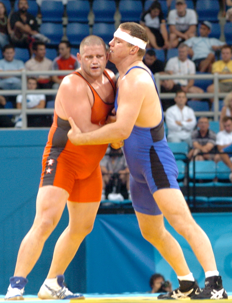 Rulon Gardner vs Sergei Mureiko, 2004 Summer Olympics - Army World Class Athlete Program - FMWRC - U.S. Army - Official Image Archive - Athens Greece - XXVIII Olympiad